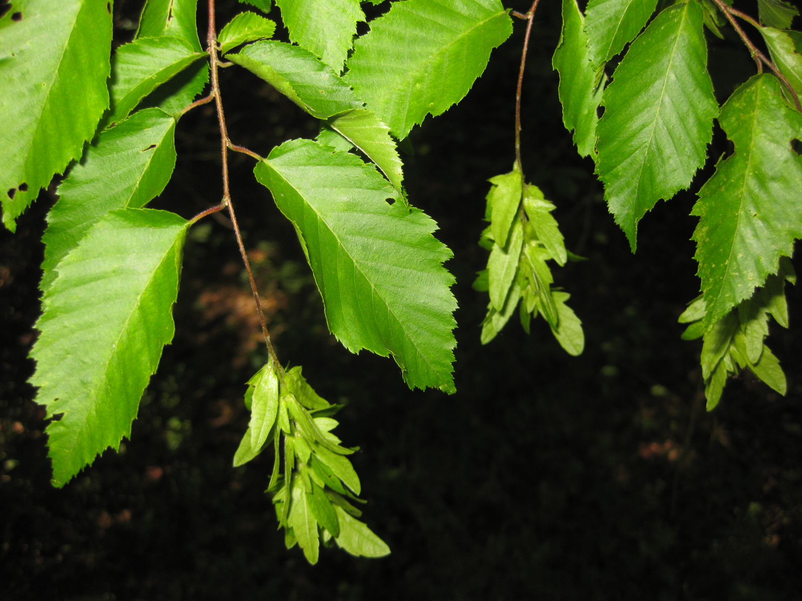 Carpinus caroliniana Photograph taken May 18, 2009 near Duluth, Georgia